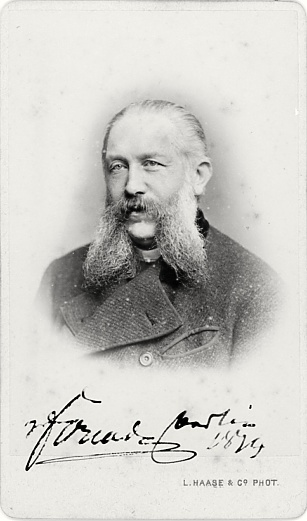 Christoph Ernst Friedrich von Forcade de Biaix (1821–1891), Judge at the German Reichsgericht and Member of parliament at the German Reichstag. Photograph by Leopold Haase & Company, Berlin, circa 1874